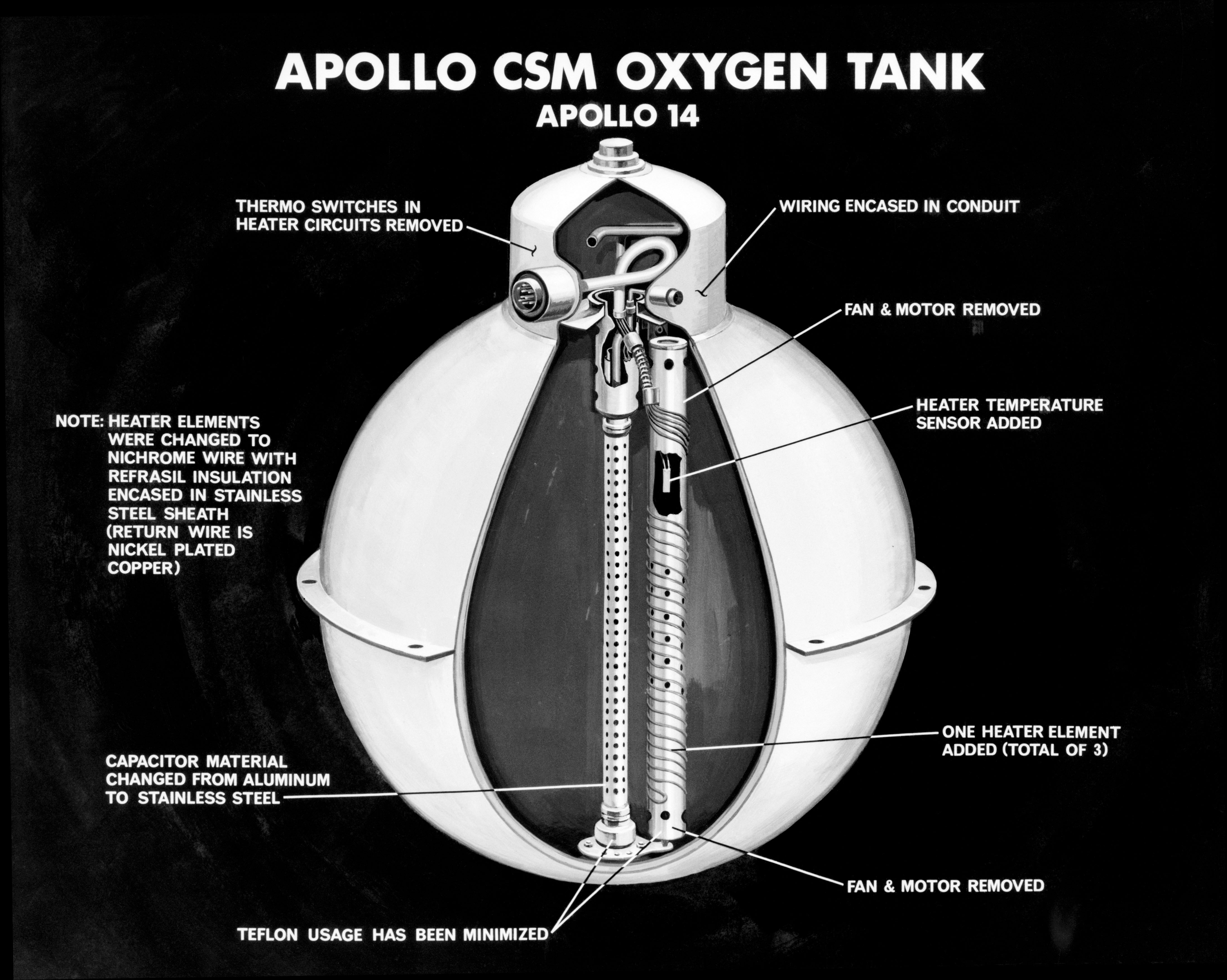 An artist's concept illustrating a cutaway view of one of the three oxygen tanks of the Apollo 14 spacecraft. This is the new Apollo oxygen tank design, developed since the Apollo 13 oxygen tank explosion. Apollo 14 has three oxygen tanks redesigned to eliminate ignition sources, minimize the use of combustible materials, and simplify the fabrication process. The third tank has been added to the Apollo 14 Service Module, located in the SM's sector one, apart from the pair of oxygen tanks in sector four. Arrows point out various features of the oxygen tank.